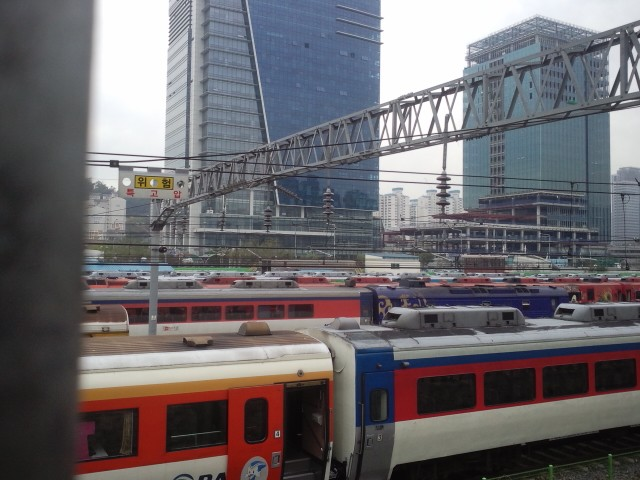 Susaek Train etc.